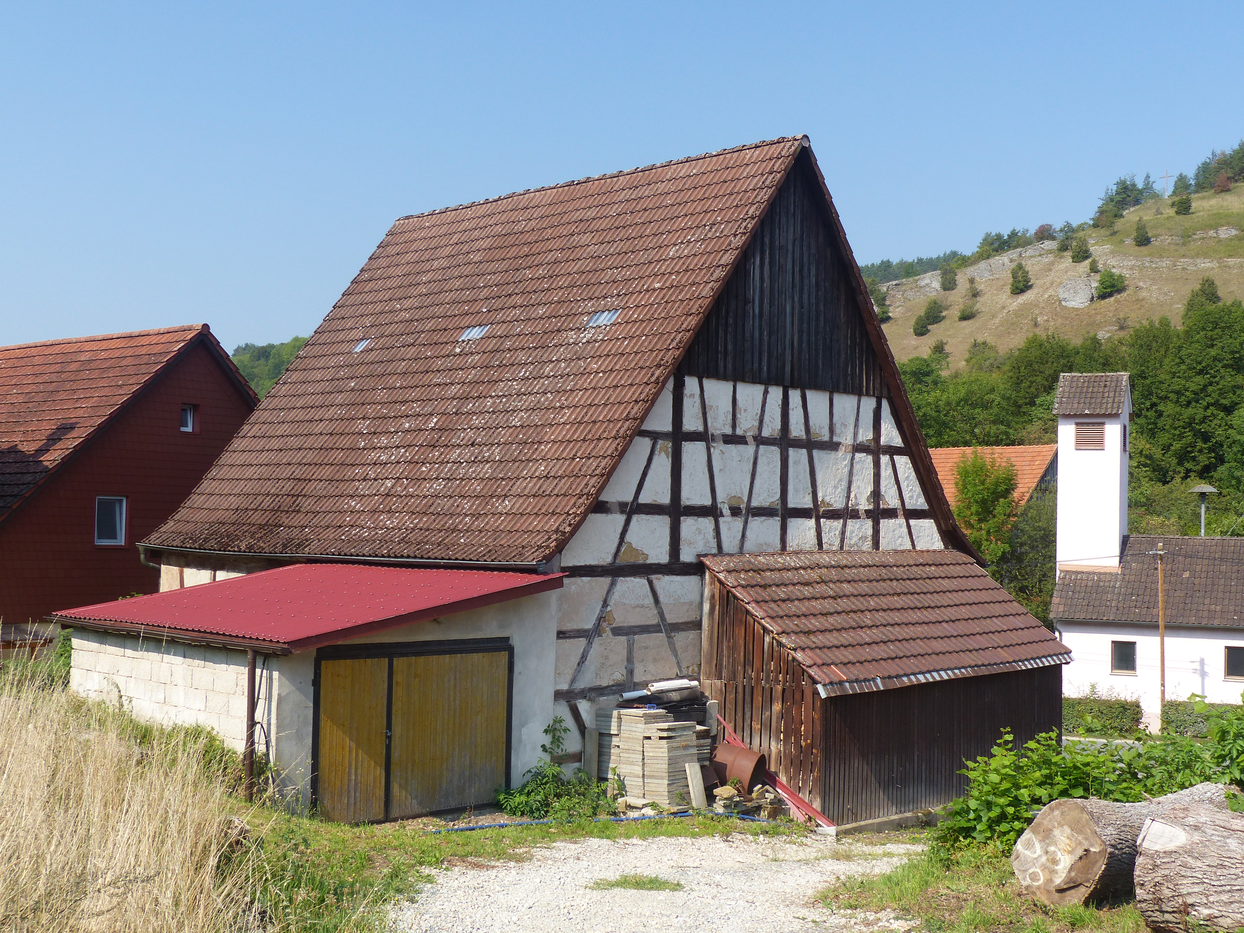 A barn in the village Roßdach, a district of the town of Scheßlitz.